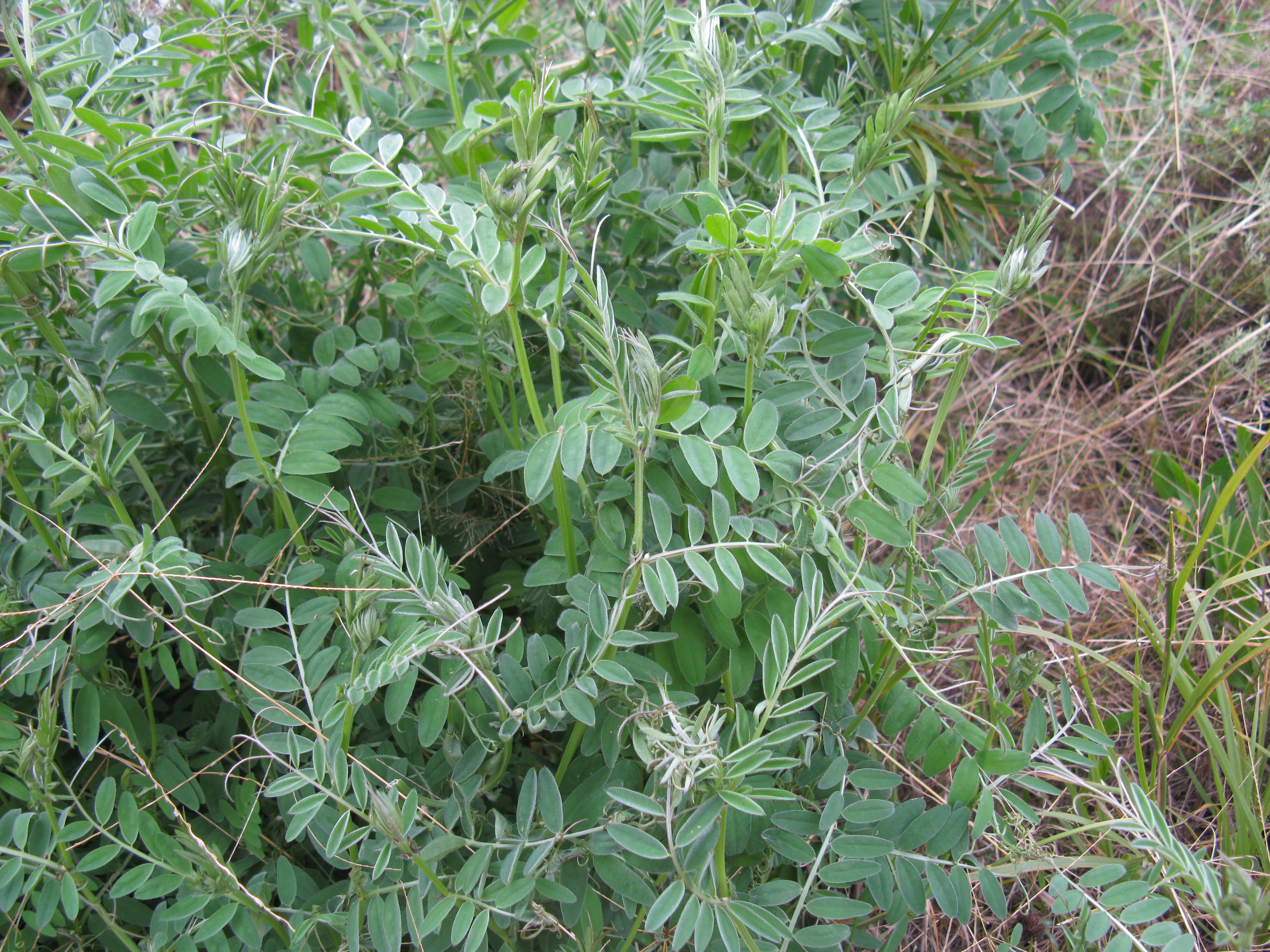 Introduced, cool-season, annual, hairy, trailing or climbing legume. Leaves are pinnate (12-16 leaflets) and end in tendrils. Flowerheads are racemes of 3-40 violet-blue pealike flowers (sometimes with white or yellow wings). Brown bean-like pods grow to 4 cm long. Flowering is in winter and spring. A native of Europe, it is occasionally sown for winter and spring feed; more so when developing new country. Requires well-drained soils, with low exchangeable aluminium levels and at least moderate fertility. Provides a high protein, high digestibility and low bloat-risk forage over the autumn to spring period; winter growth is generally poor, but spring growth is strong. Has poor palatability, especially when young. It can take several days for cattle to become accustomed to it, but then they readily eat it. Occasionally causes vetch toxicoses in cattle, leading to ill thrift and possibly death; rare in hay and silage. Do not graze before young plants have branched. It is important to build the seedbank in the first year; stock lightly or leave ungrazed from flowering onwards to maximise seed set. More tolerant of cattle than sheep; persists best under less intense grazing systems.